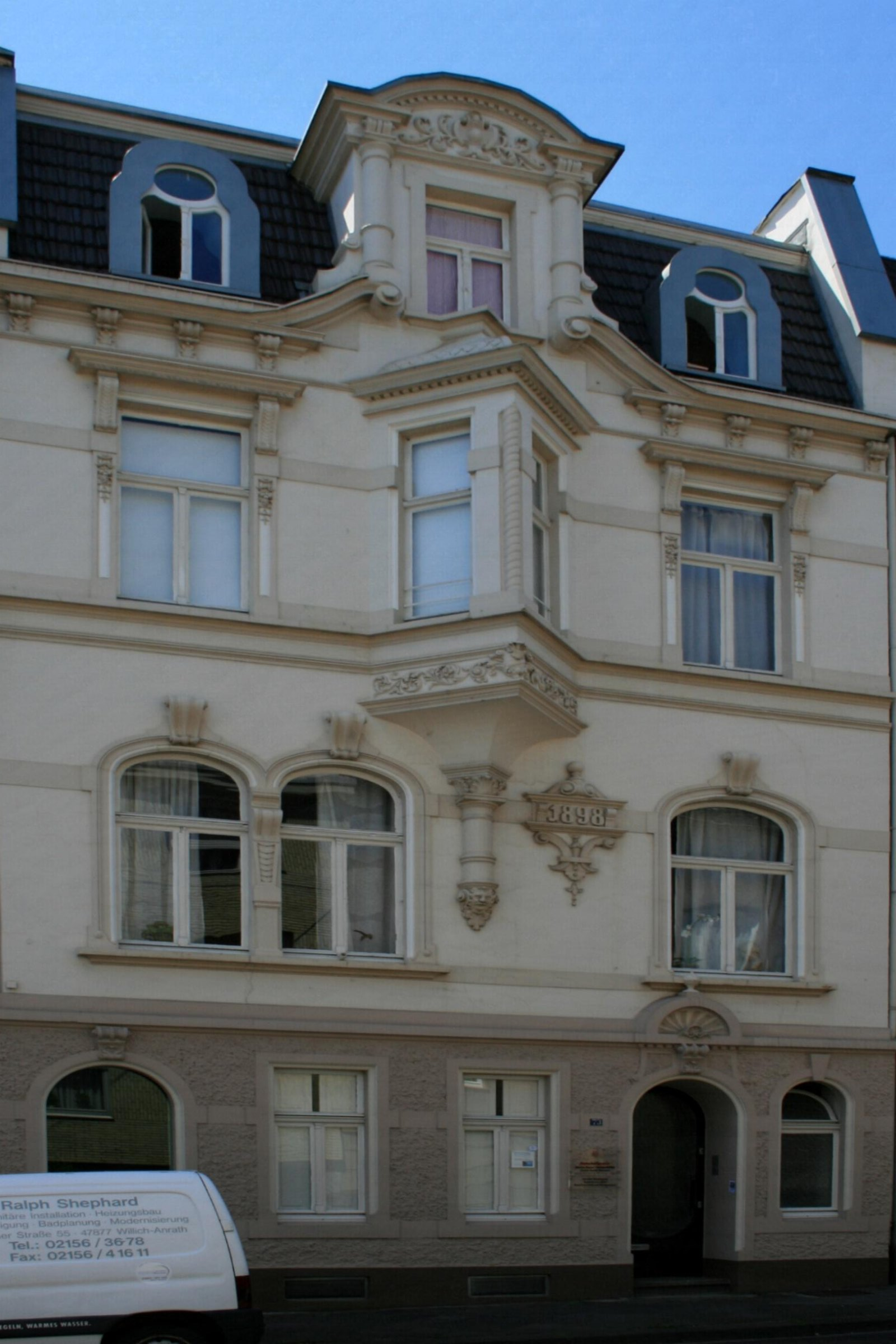 Cultural heritage monument No. Sch 045 in Mönchengladbach